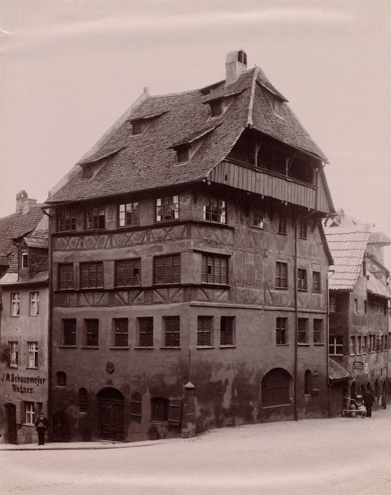 BPLDC no.: 08_04_000317 Page Title: Dürer-Haus Collection: Tupper Scrapbooks Collection Album: Volume 36: The Rhine. Heidelberg. Nuremberg. Call no.: 4098B.104 v36 (p. 37) Creator: Tupper, William Vaughn Photographer: C. Hertel; F. Frith & Co.; Ferdinand Schmidt (1840–1909) DescriptionGerman photographerDate of birth/death19 June 184022 August 1909Location of birth/deathNurembergNurembergWork locationNuremberg, GermanyAuthority control : Q107111 VIAF: 30398408 ISNI: 0000 0000 7142 7328 ULAN: 500026573 LCCN: n88039611 GND: 121651363 WorldCat Genre: Scrapbooks; Albumen prints Extent: 1 photographic print mounted on page : albumen ; page 33 x 39 cm. Description: Scrapbook page features one photograph of the exterior of the Dürer-Haus. Transcription: Notes: Page title and description supplied by cataloger, derived from captions and/or annotated information. BPL Department: Print Department Rights: No known restrictions.